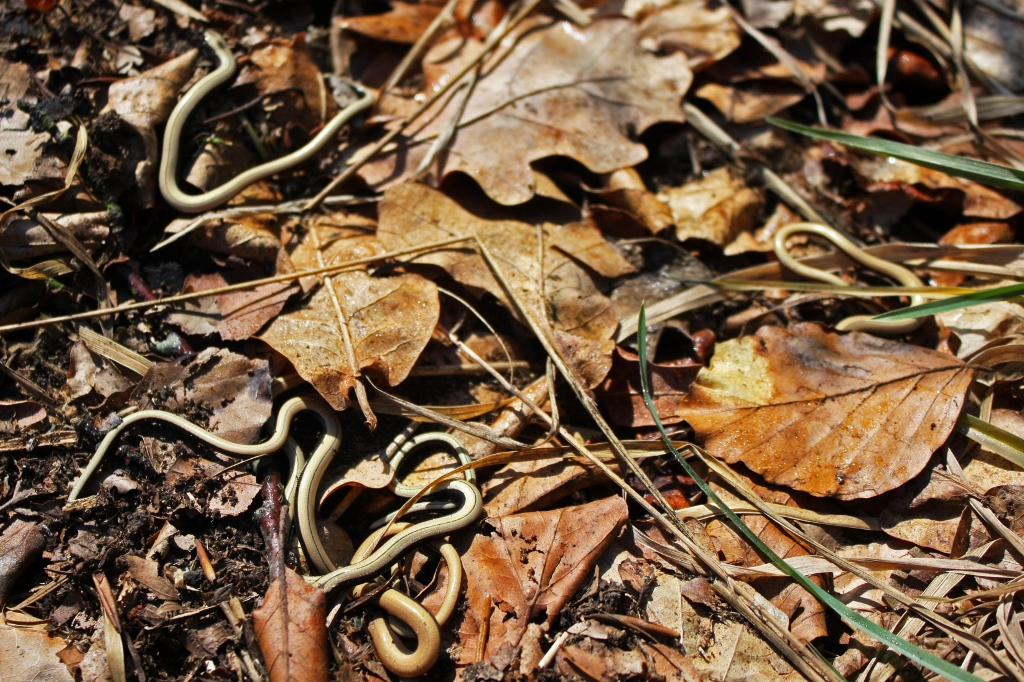 In a Hertfordshire wood.